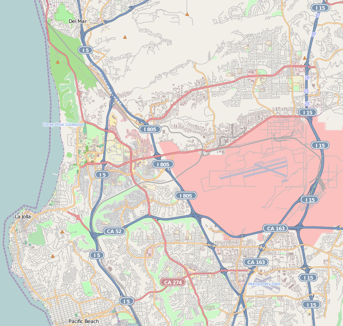 This map of Northwestern San Diego was created from OpenStreetMap project data, collected by the community. This map may be incomplete, and may contain errors. Don't rely solely on it for navigation. Border coordinates32.9481-117.2869←↕→-117.09632.7958